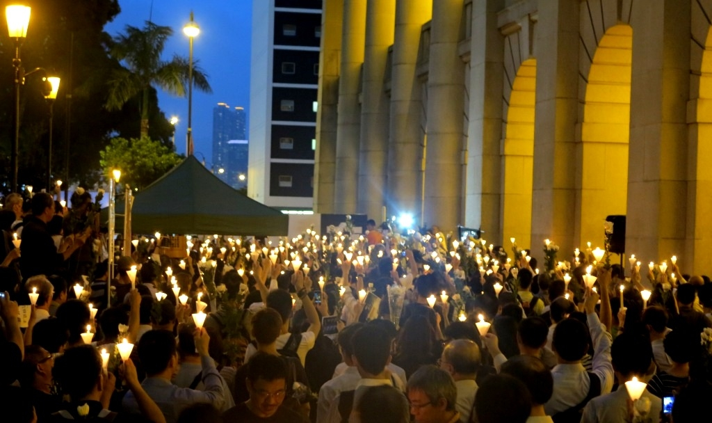 Around 1500 protestors attended a vigil on 13 June 2012 at the old Legislative Council building in Central to mark the seventh day of Chinese activist Li Wangyang's death.